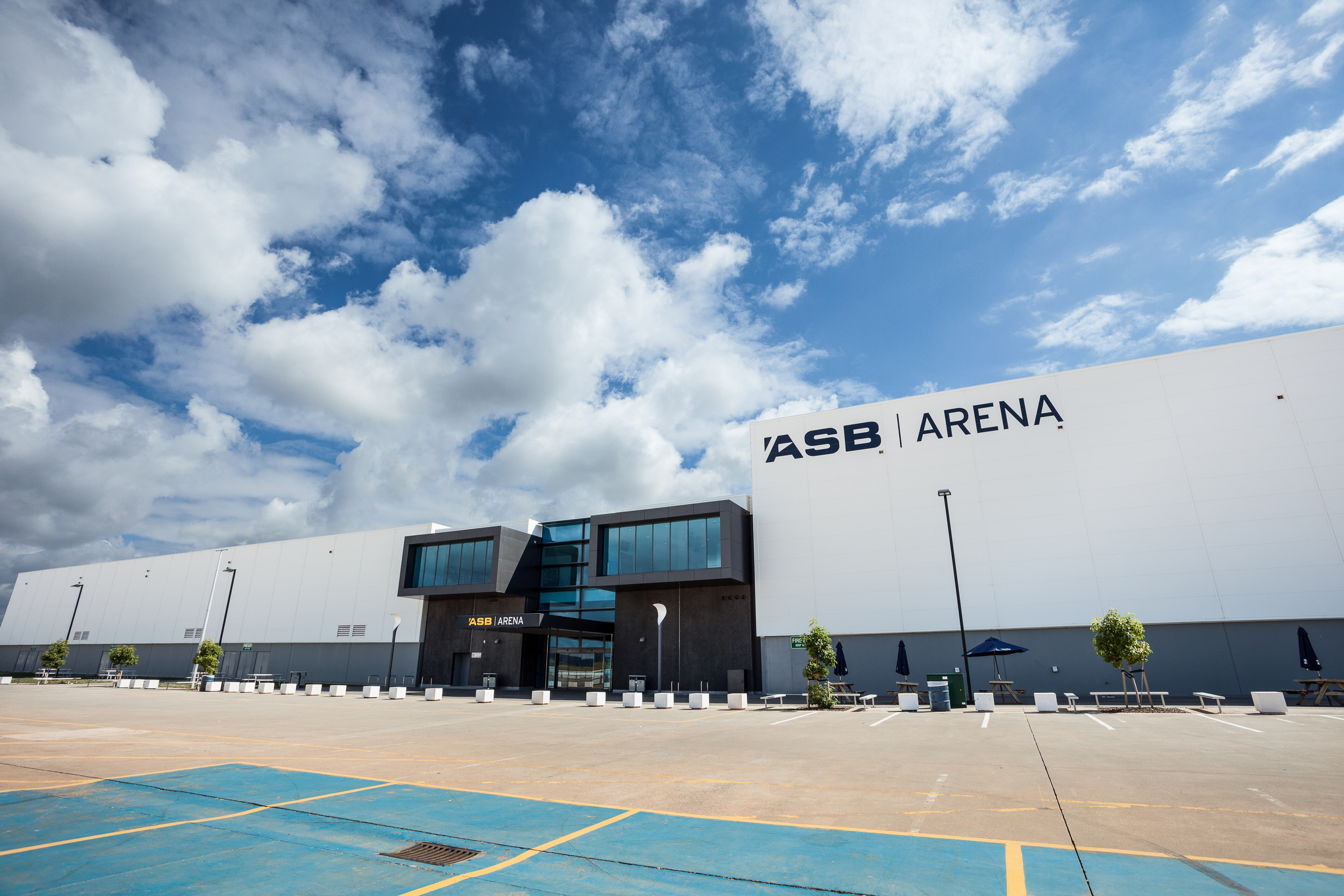 Entrance of the ASB Arena in Tauranga